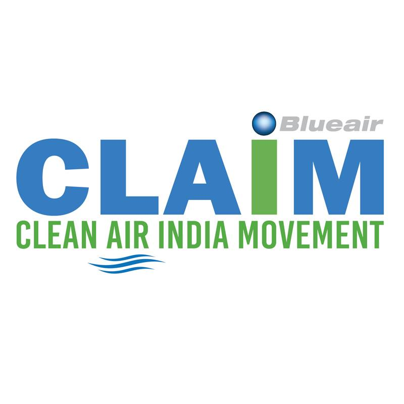 Clean Air India Movement